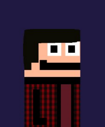 Cartoon representation of Eli